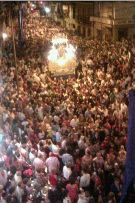 procesion